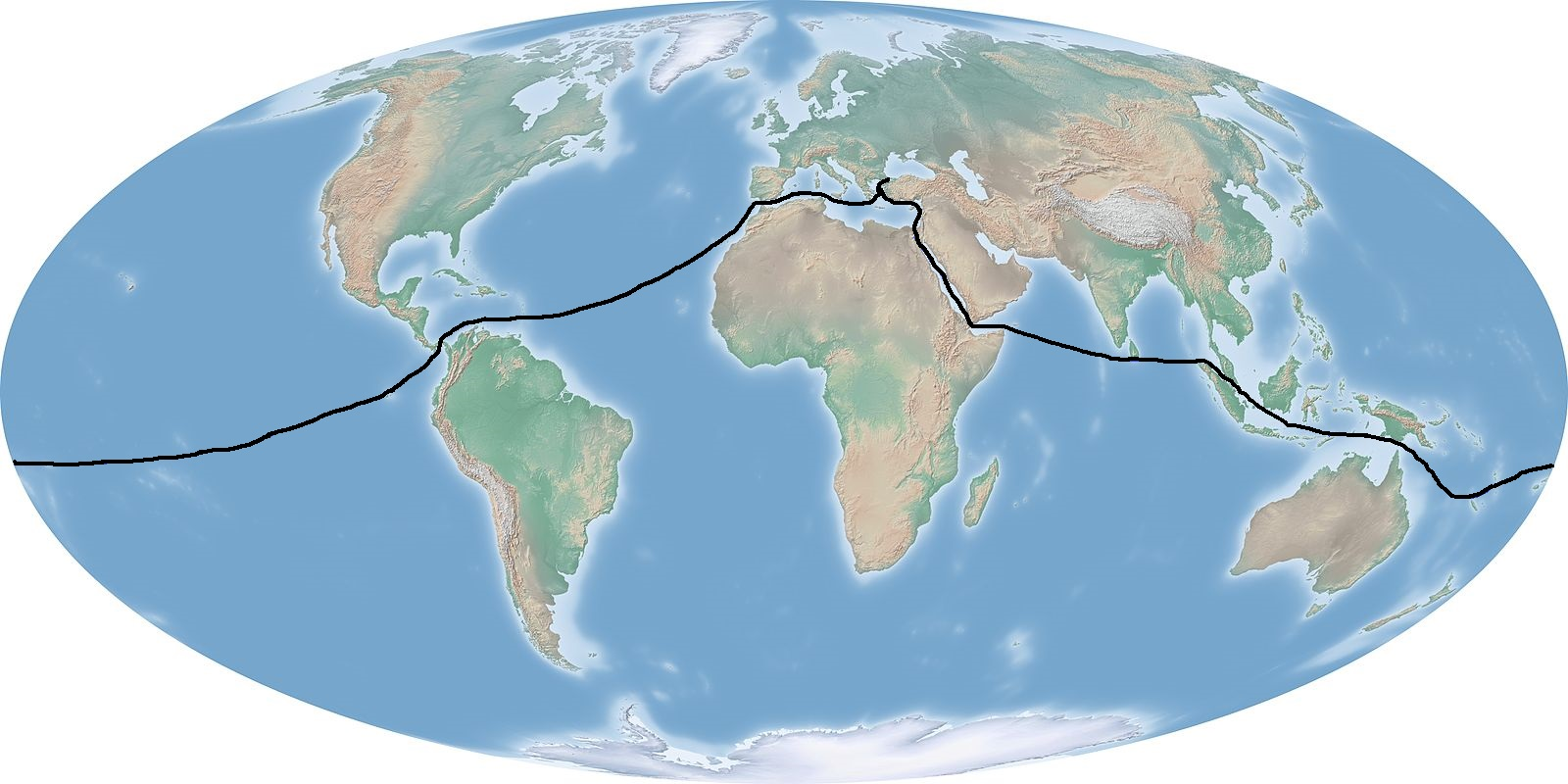 Sadun Boro's circumnavigation of the globe by sailboat between 1965-68